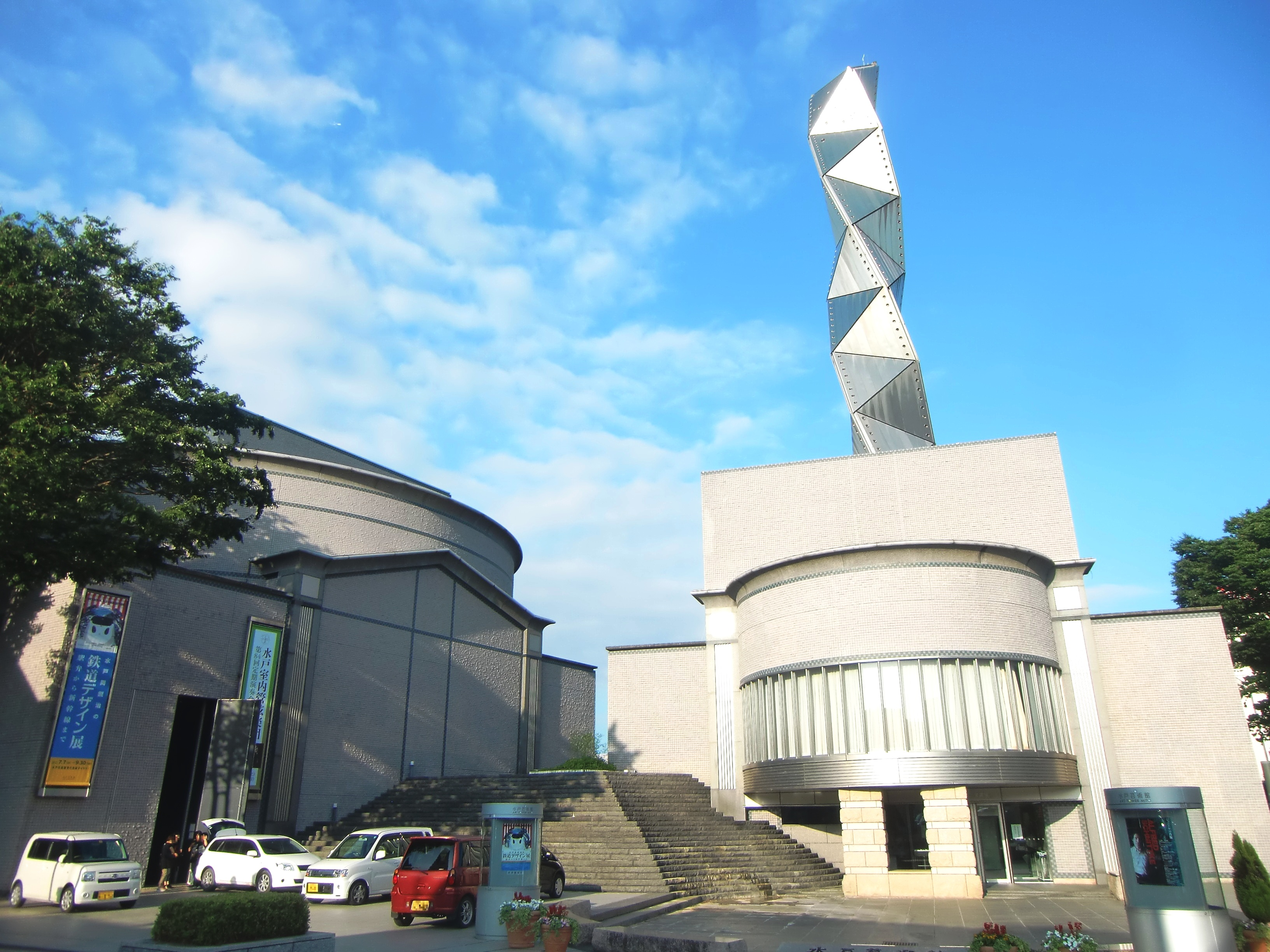 Art Tower Mito in Mito city, Ibaraki prefecture, Japan.